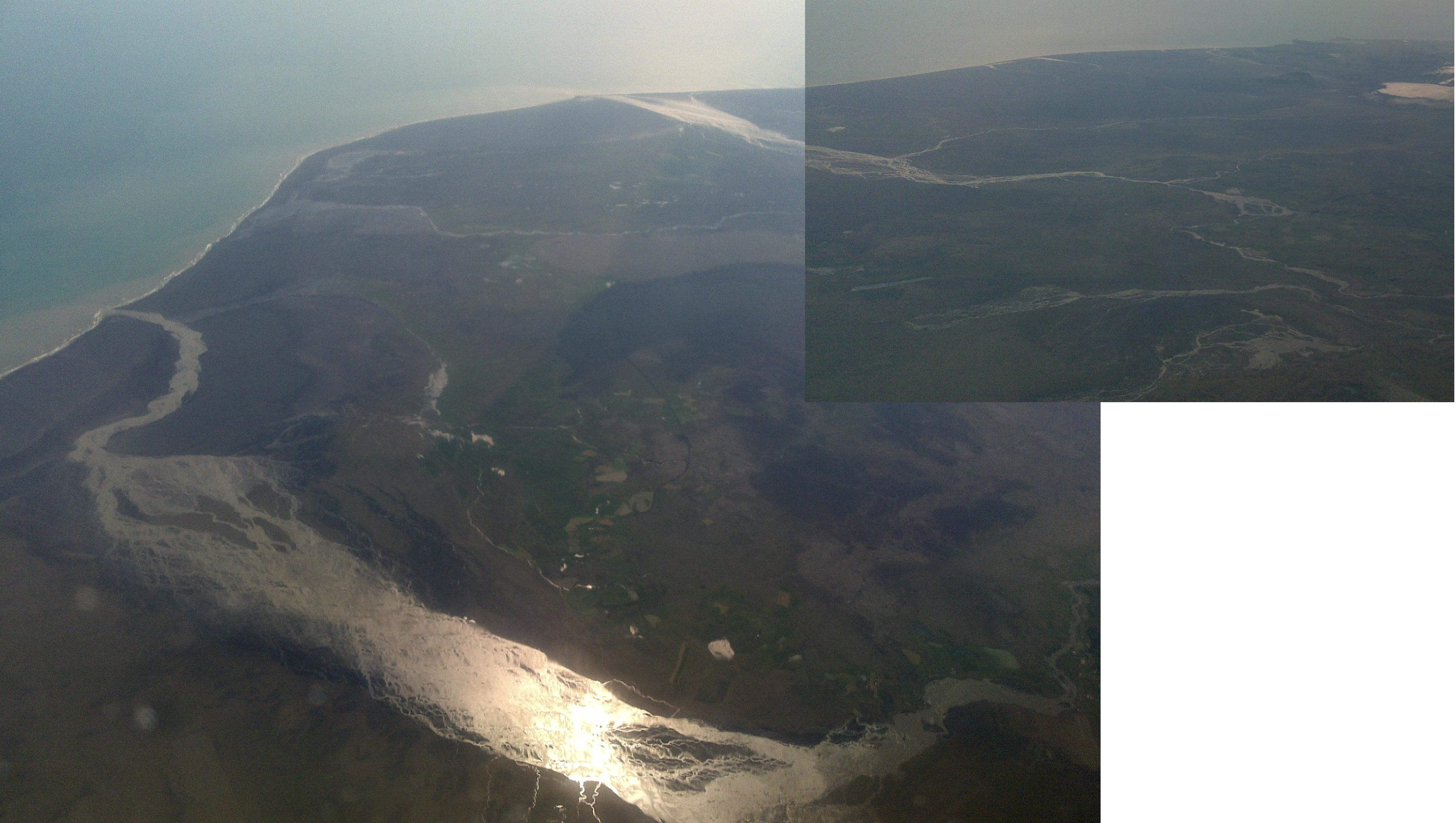 Panorama of he delta-land of Skaftá (left) and Kudafljót (right). The and between them (centre) is called Eldhraun.